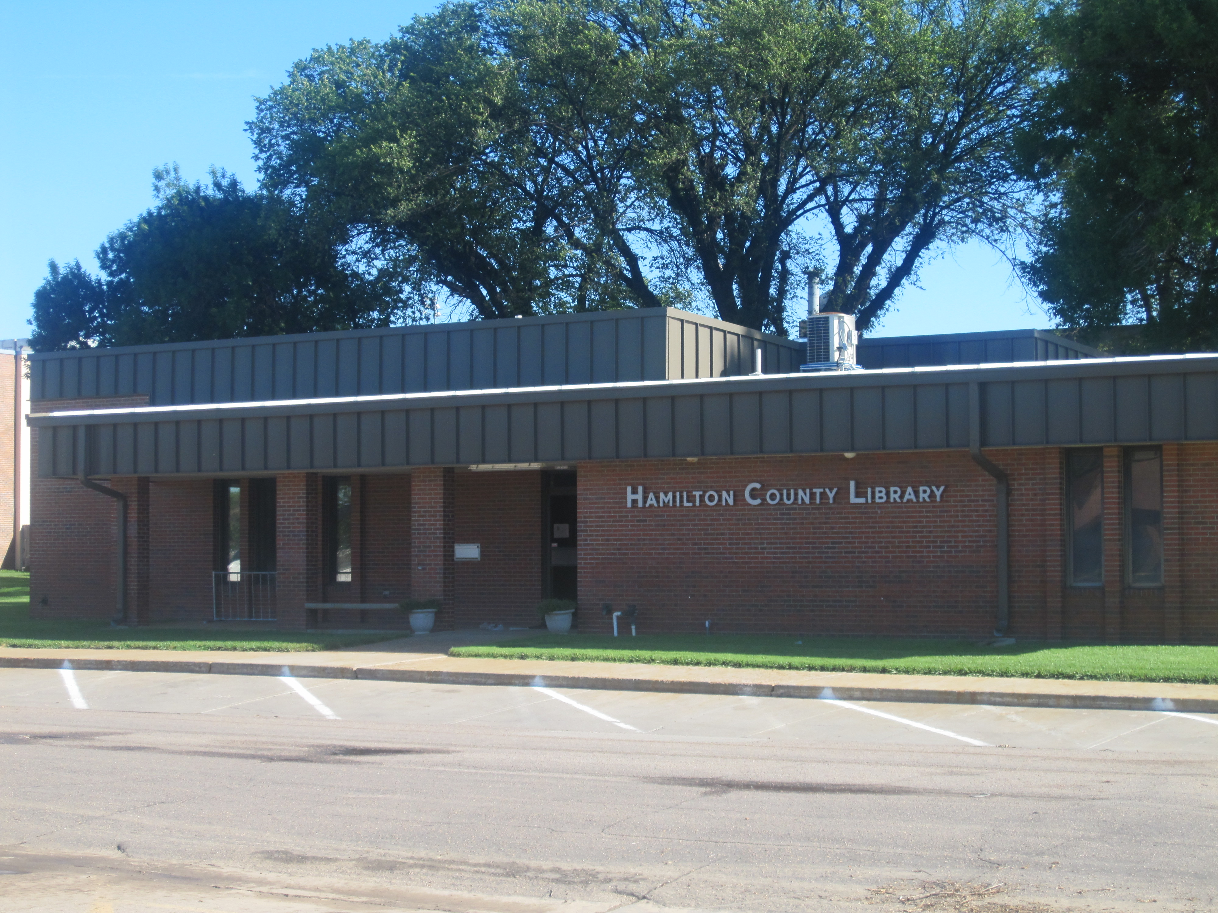 I took photo with Canon camera in Hamilton County, KS.